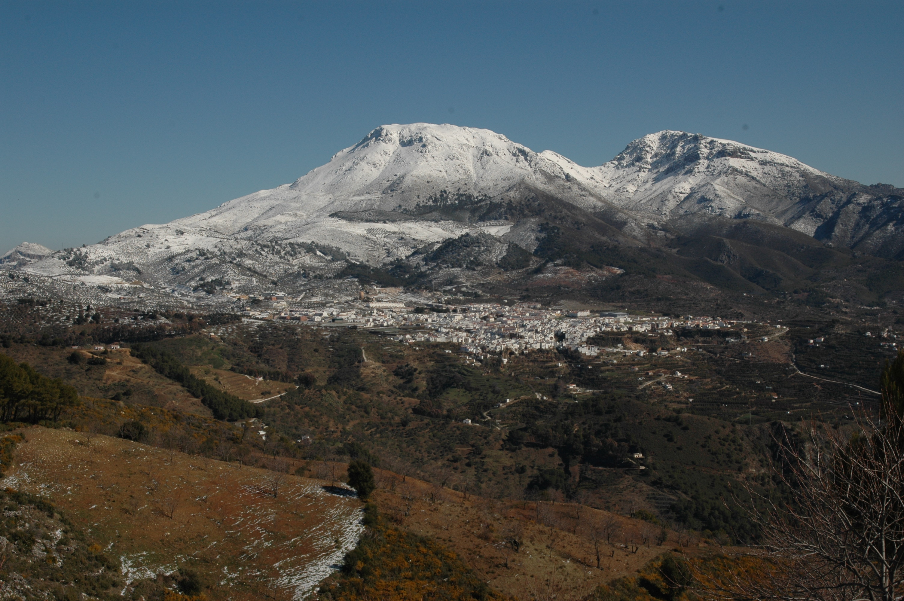 View from sierra de las Nieves to sierras Prieta and Cabrilla and the town of Yunquera